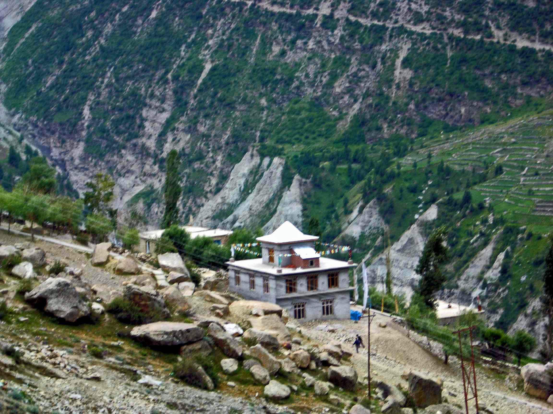 I took this photo myself in 2004